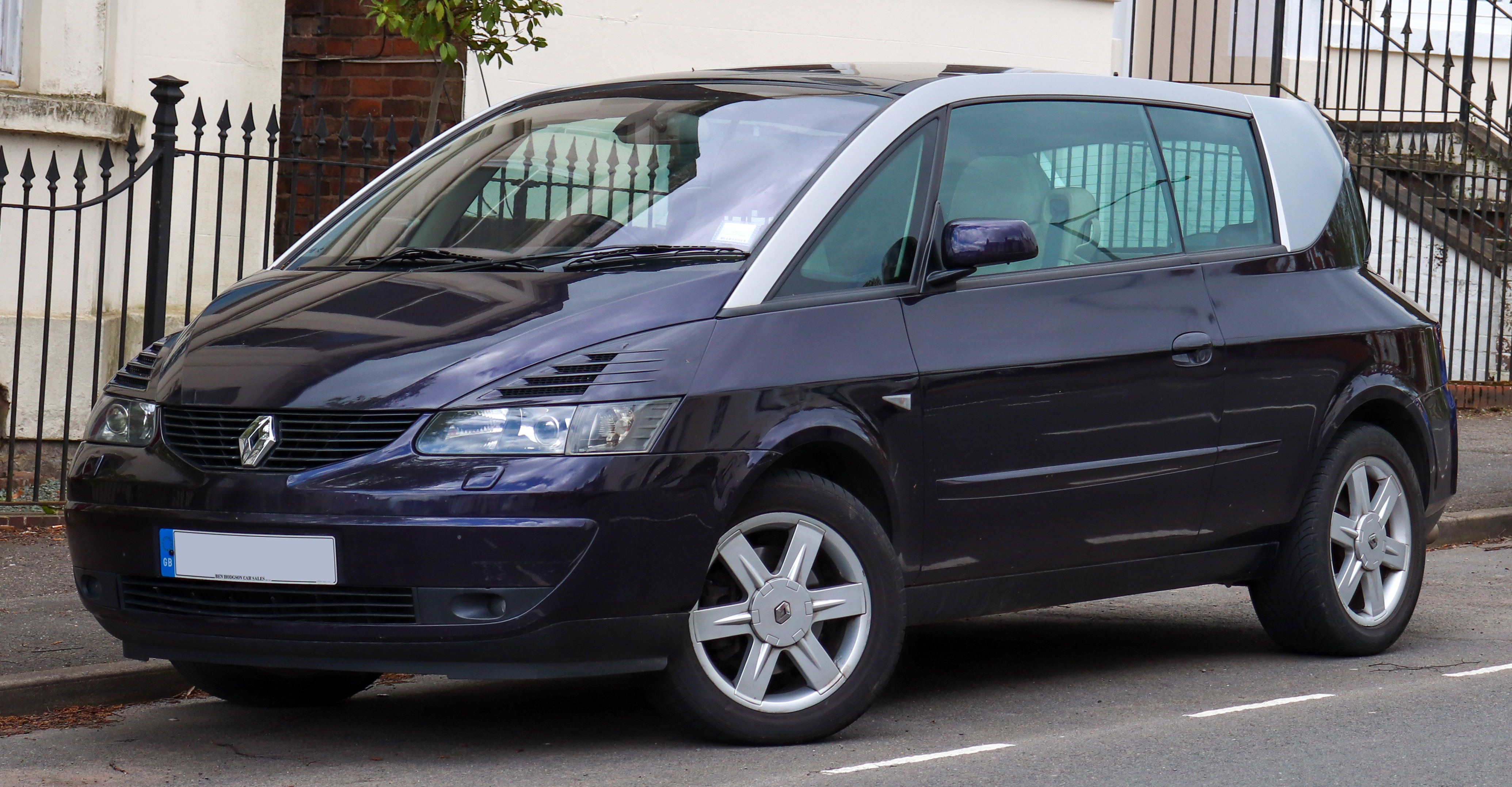 2002 Renault Avantime Privilege 3.0 Front Taken in Leamington Spa